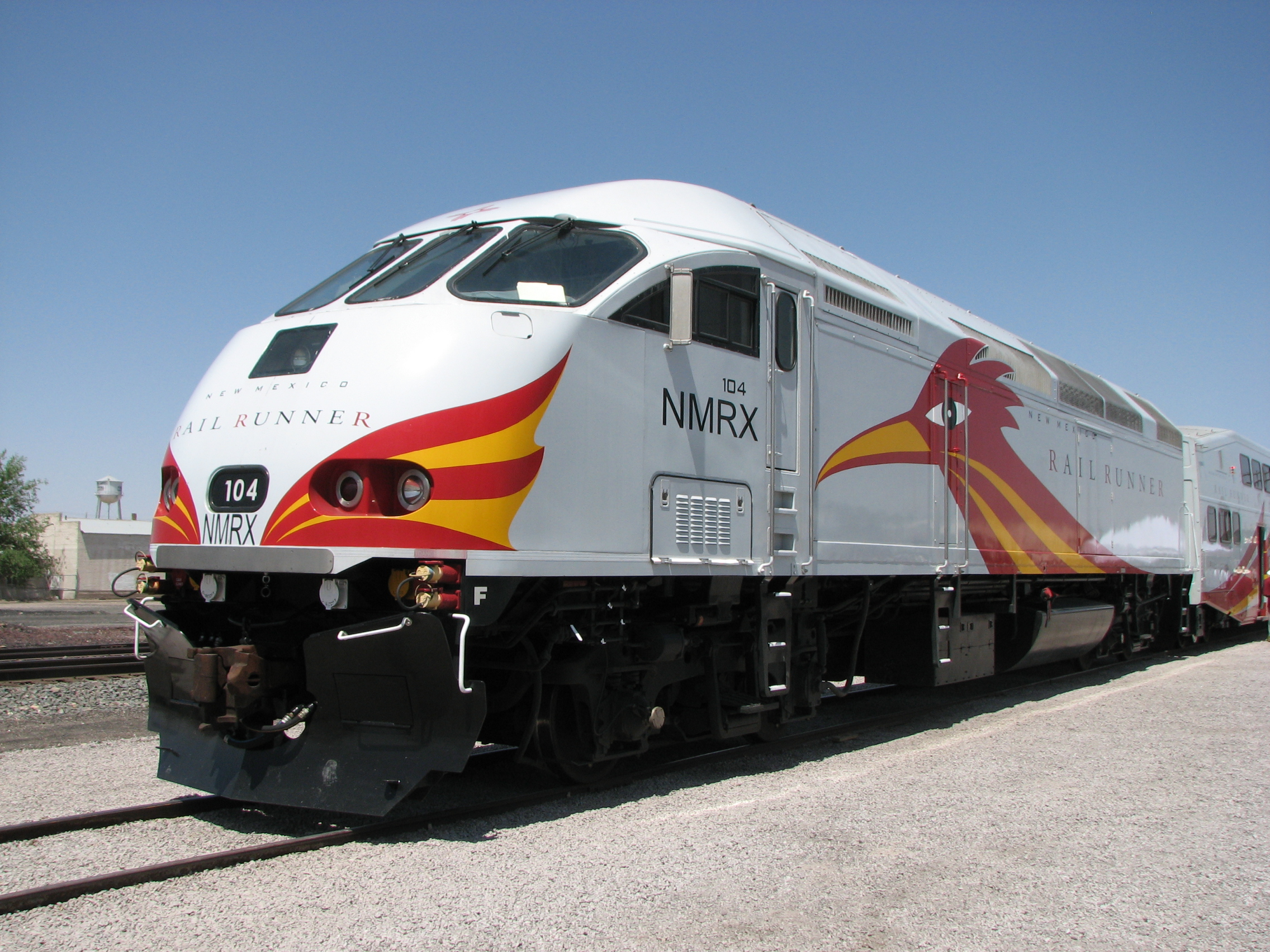 New Mexico Rail Runner Commuter Train, visiting Las Cruces NM.